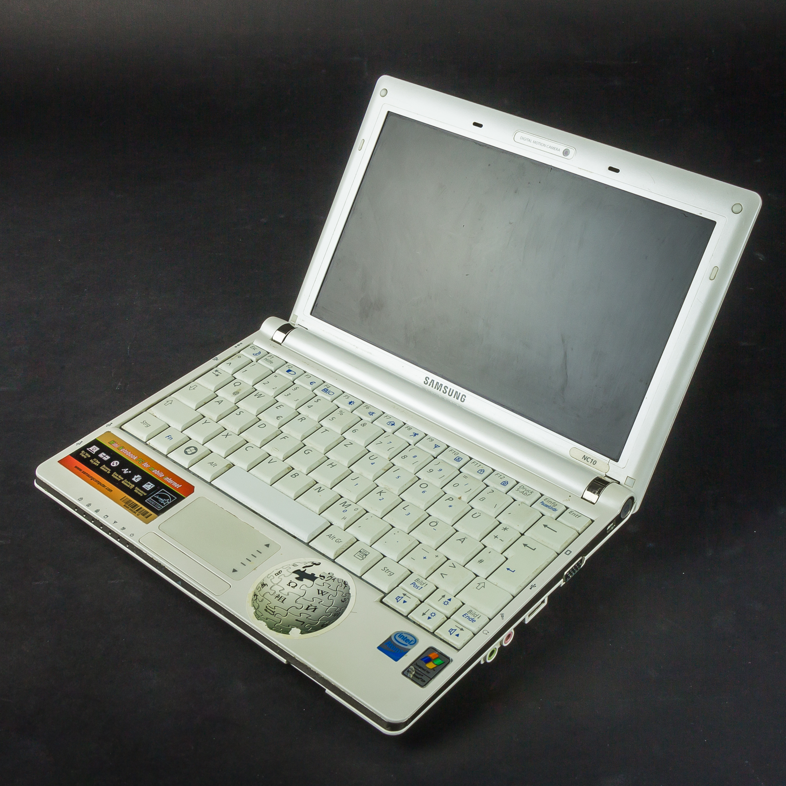 Samsung NC10 - netbook in white